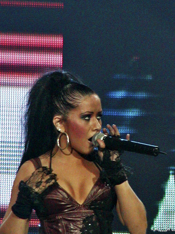 Christina Aguilera on the Stripped Tour